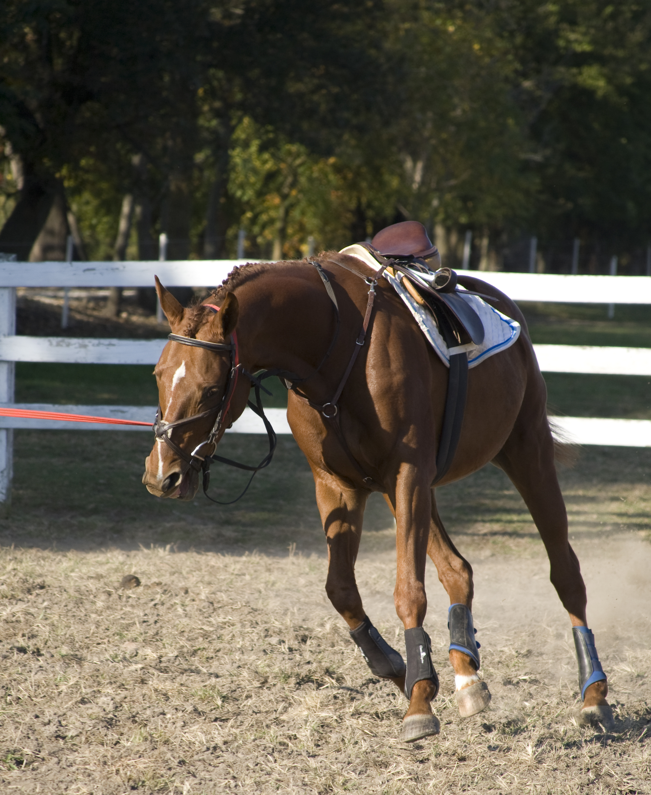 Thoroughbred mare being lunged